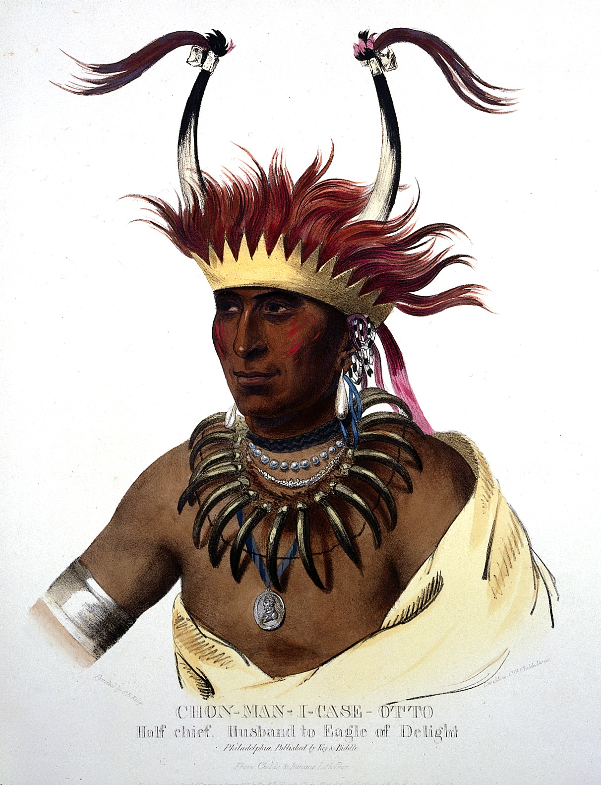 Chon-Man-I-Case-Otto half chief. Husband to Eagle of Delight, with red hair and crown hair piece with horns and animal tooh neck decoration. Iconographic Collections Keywords: America; American Indian; Costume; Jewellery; Ethnology; Indians, North American; Americas; name; Charles Bird King